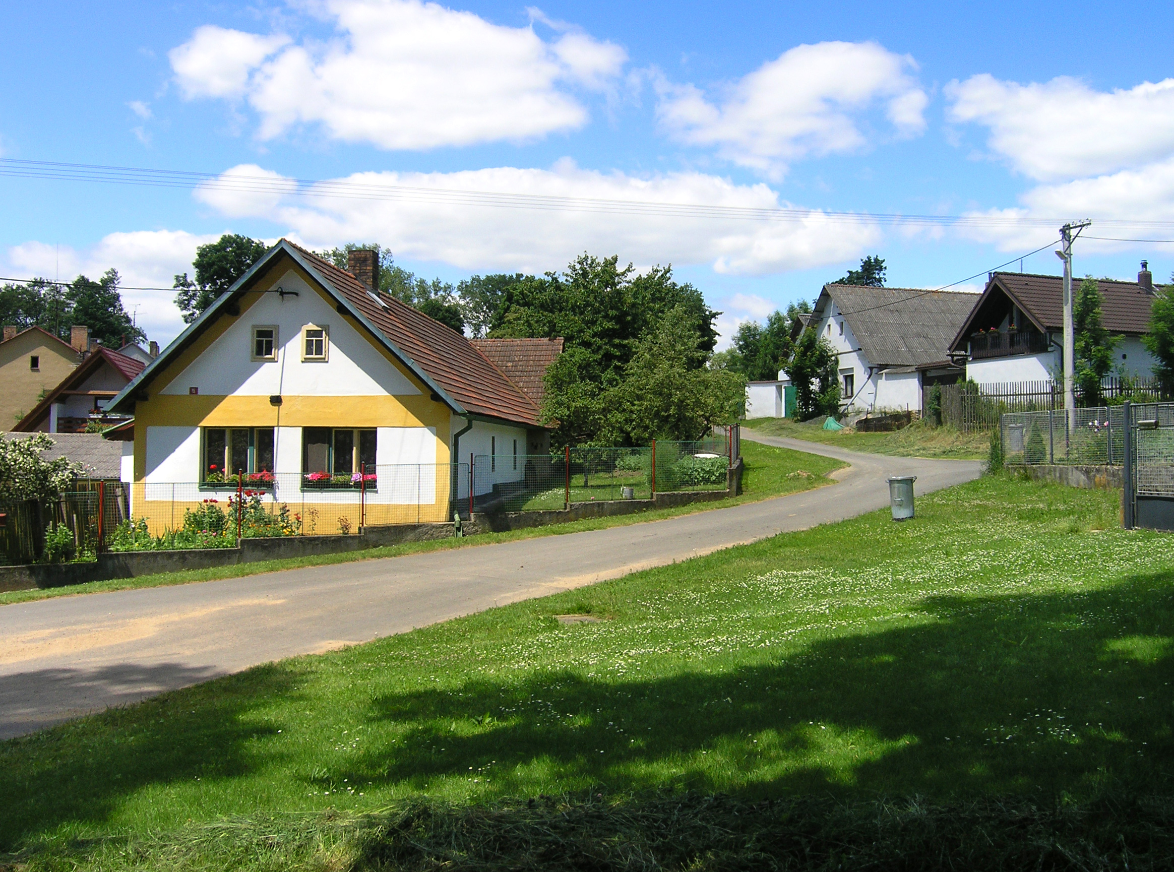 Middle part of Chyšná village, Czech Republic